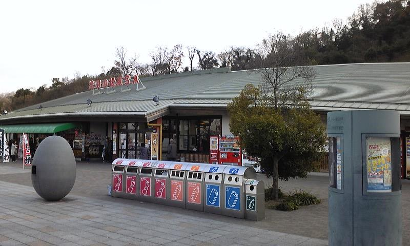 This is a picture of Tsuda-no-Matsubara Service Area. This was taken by cellphone.